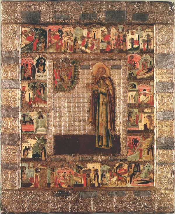 St. Theodore Sikeot with scenes from his life. Icon. Russia. The third quarter of the XVII century. 61 x 49. From the task in st. Theodore Solvychegodsk Annunciation Cathedral. Solvychegodsk State Historical - Art Museum. Arkhangelsk region.